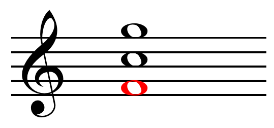 Suspended fourth chord on C in first inversion.